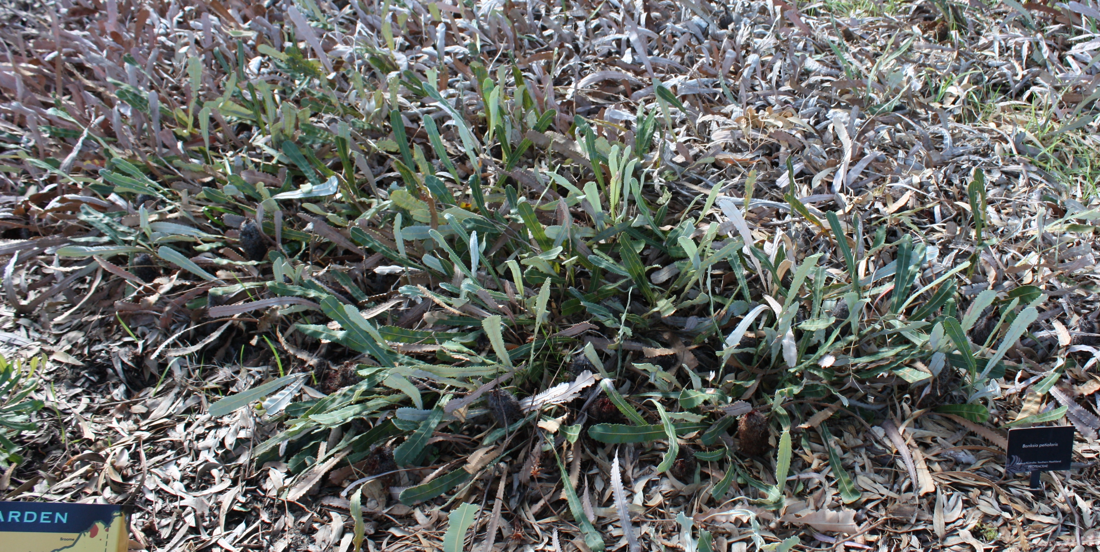 Banksia petiolaris, in cultivation, Kings Park, Perth, Western Australia